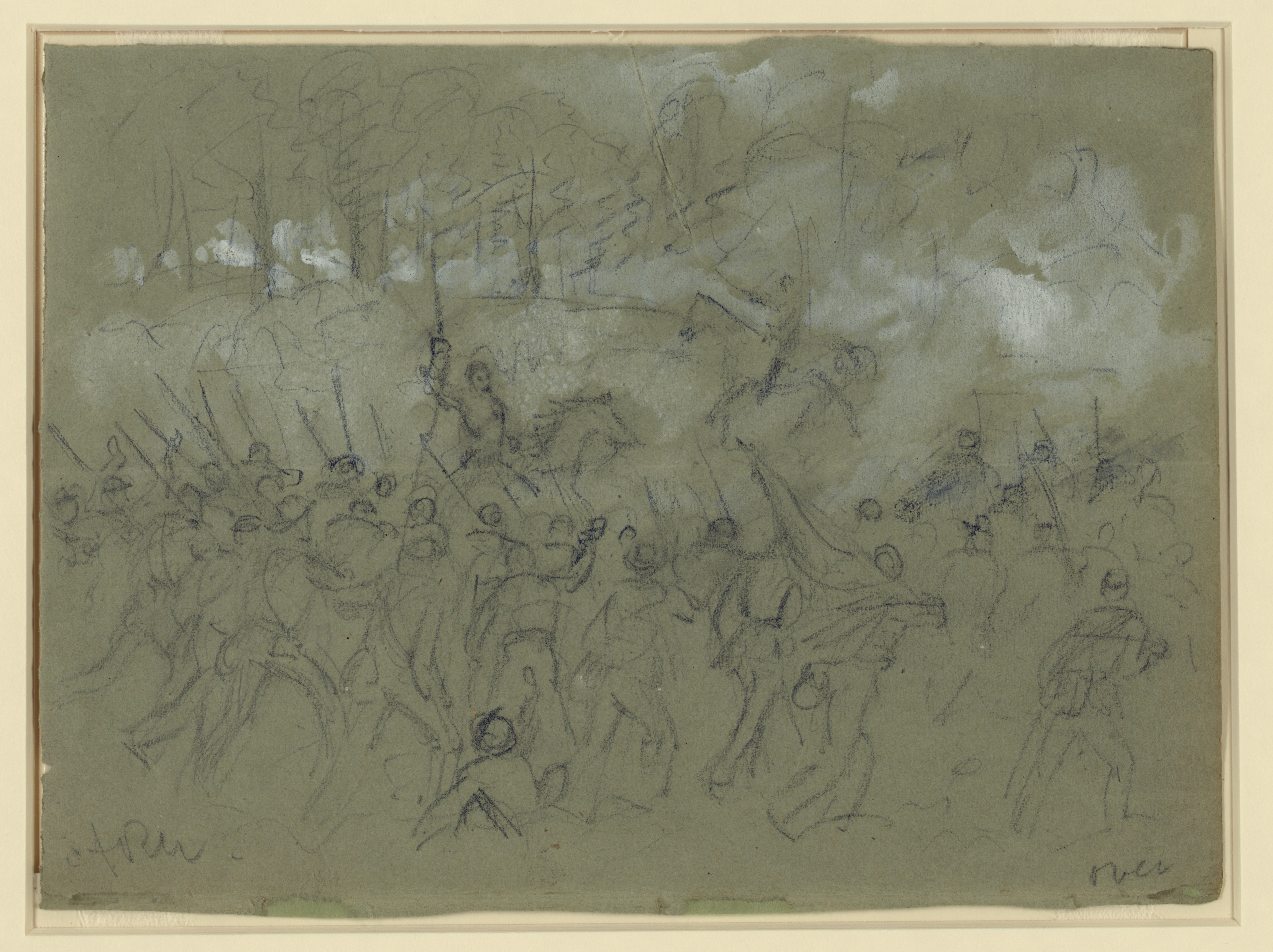 Title: The charge of the 8th Vermont at the [Third] Battle of Winchester Abstract/medium: 1 drawing on olive paper : pencil and Chinese white ; 21.4 x 15.6 cm. (sheet). The Third Battle of Winchester (or Battle of Opequon), was fought in Winchester, Virginia, on September 19, 1864, during the Valley Campaigns of 1864 in the American Civil War.